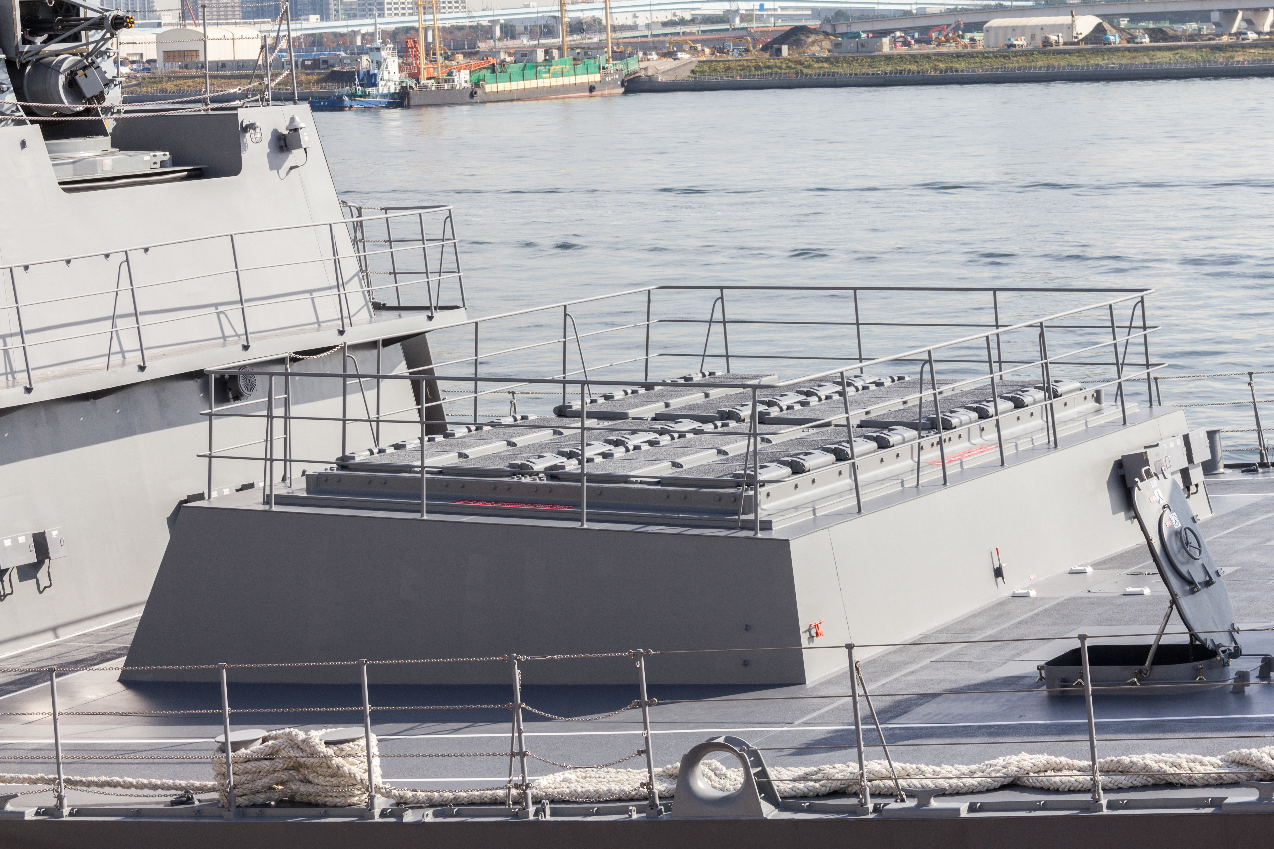 Mk41 VLS on JDS DD-116 Teruzuki at Harumi-pier, Tokyo (2013 Dec 1) Canon EOS 60D